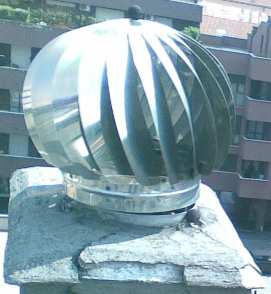 An eolic chimney